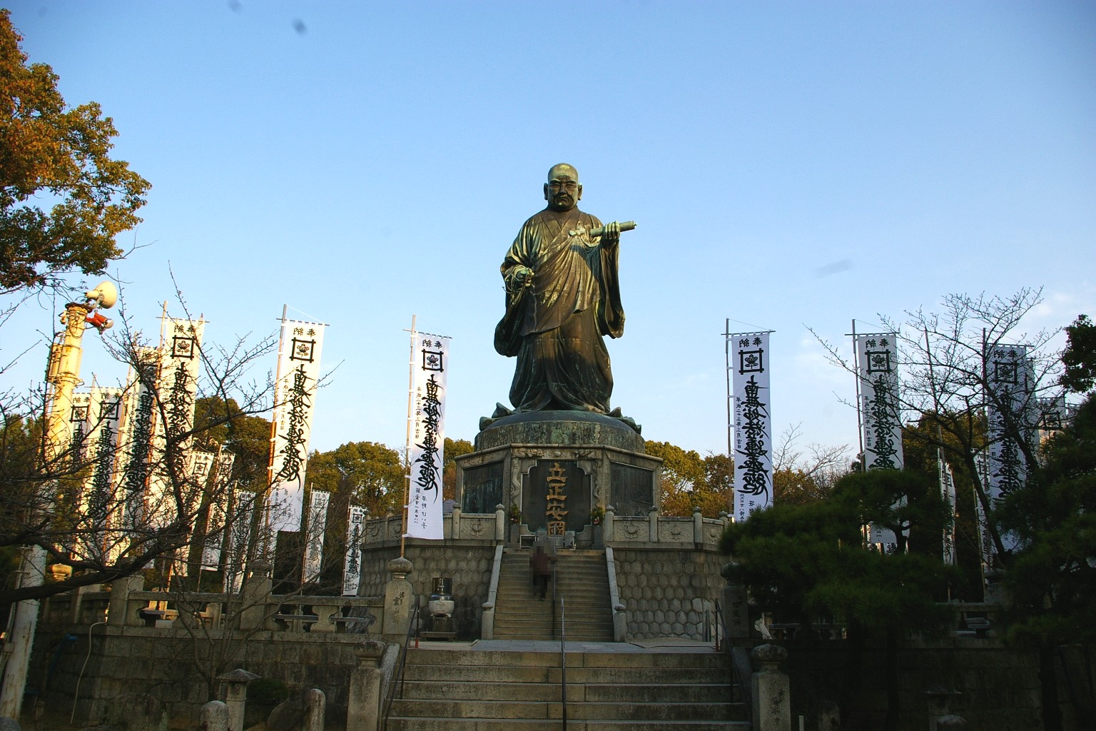 It located in Hakata.